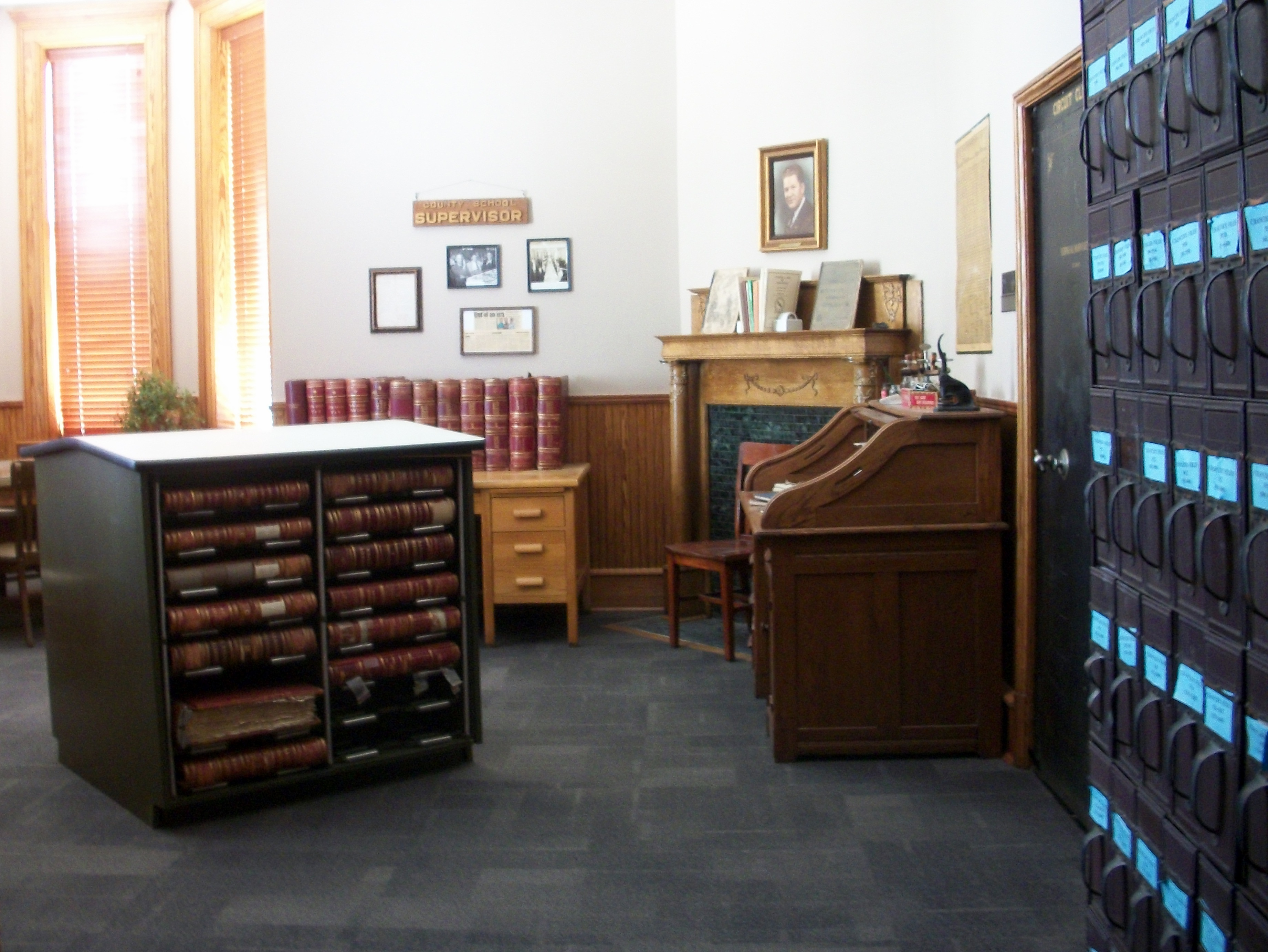 The County Records for Washington County are now contained in the historic Washington County Courthouse in Fayetteville, Arkansas. This room is on the main floor.